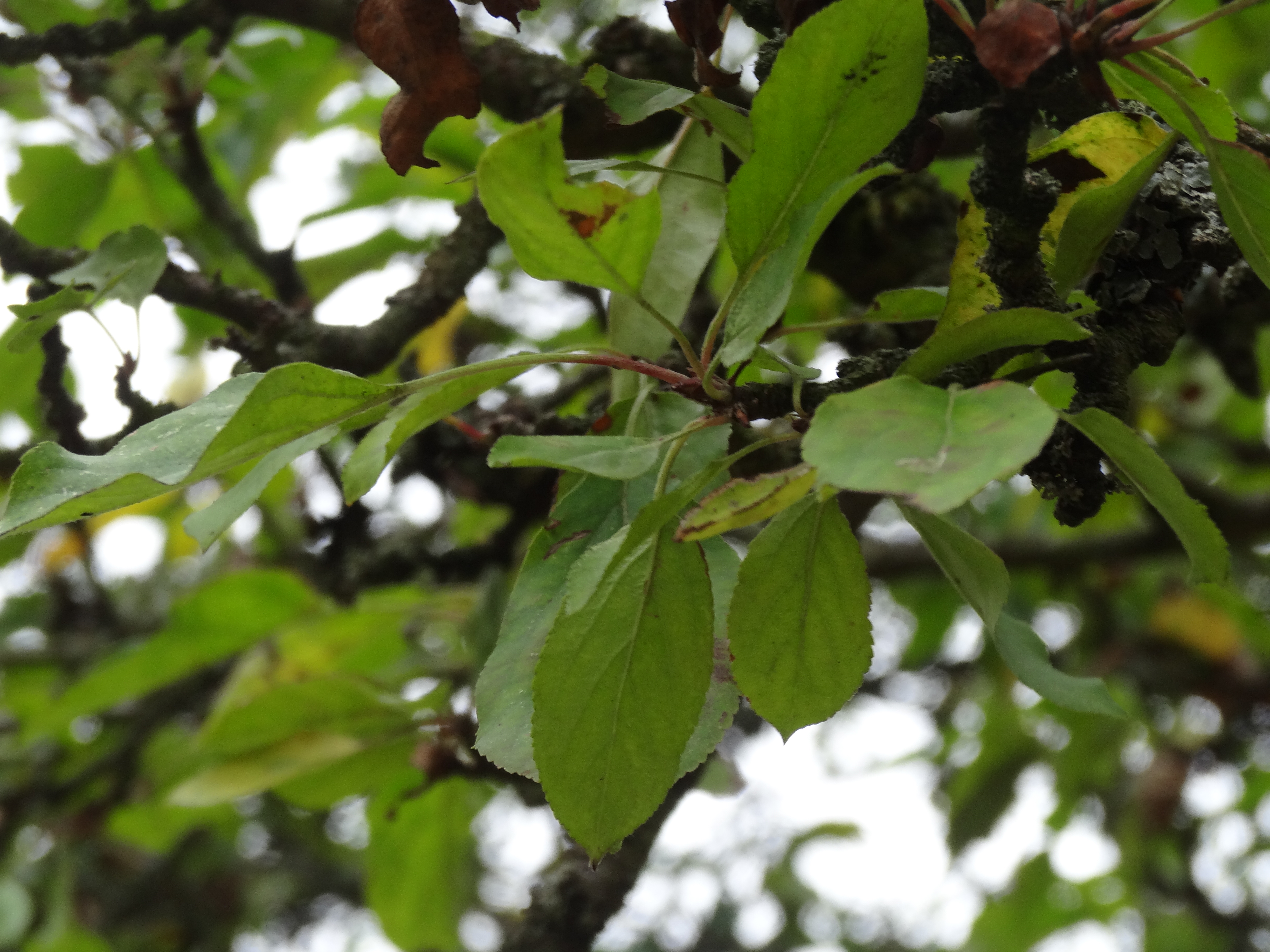 Bushy House (gardens) - thanks to the NPL for holding an open day Malus hupehensis